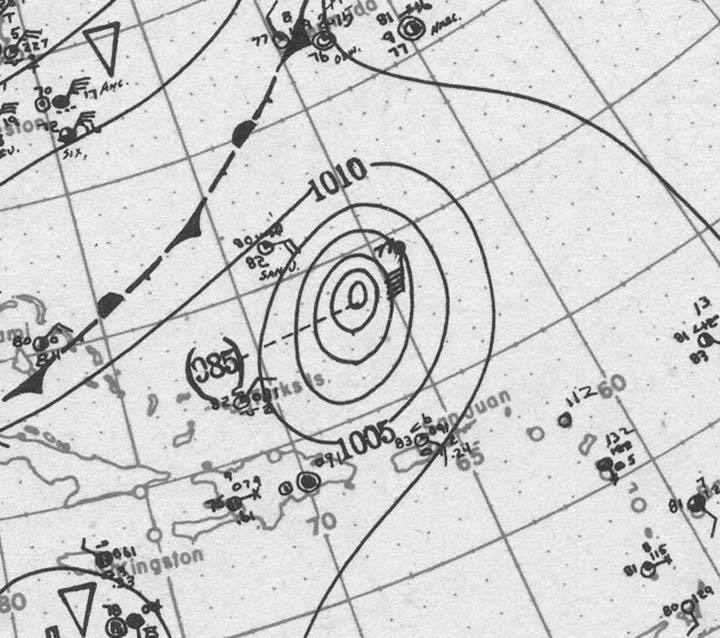 Surface weather analysis of the thirteenth storm of the 1916 Atlantic hurricane season moving north in the Sargasso Sea on October 11, 1916.